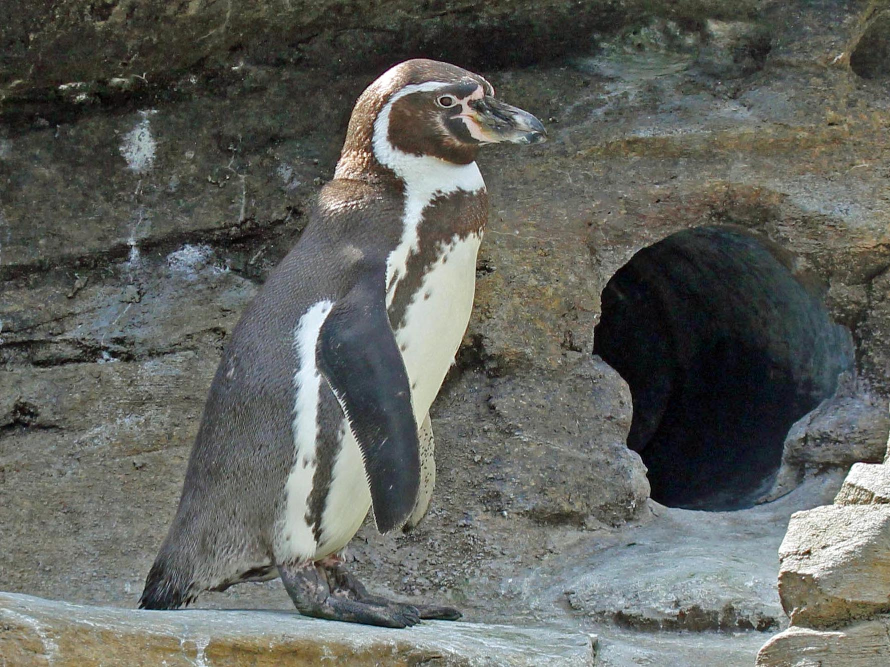 Humboldt Penguin (Spheniscus humboldti) - Woodland Park Zoo, Seattle, Washington.